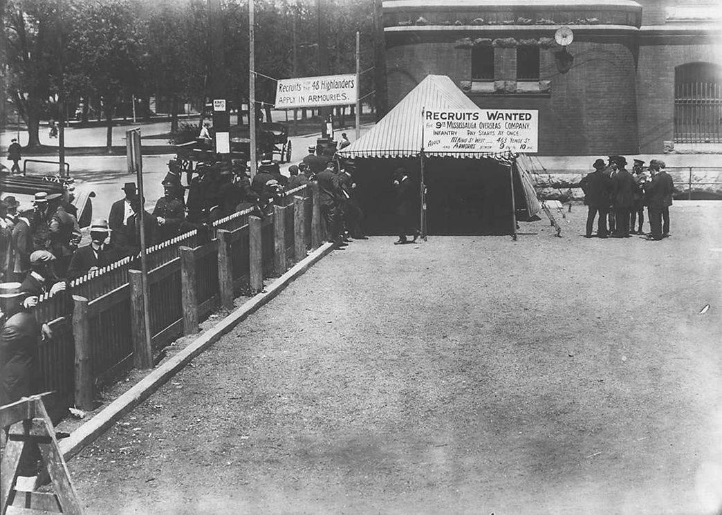 Recruiting tent at the Toronto Armouries. Toronto, Canada.